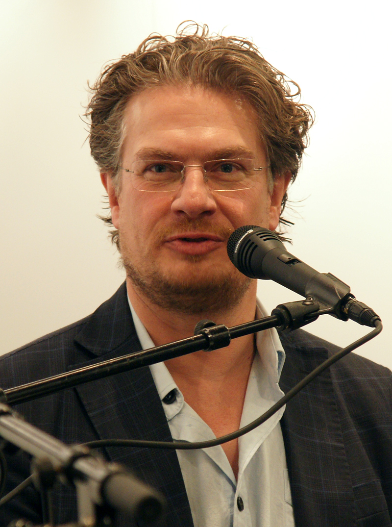 Henrik Dahl - Danish sociologist, lifestyle observer and writer